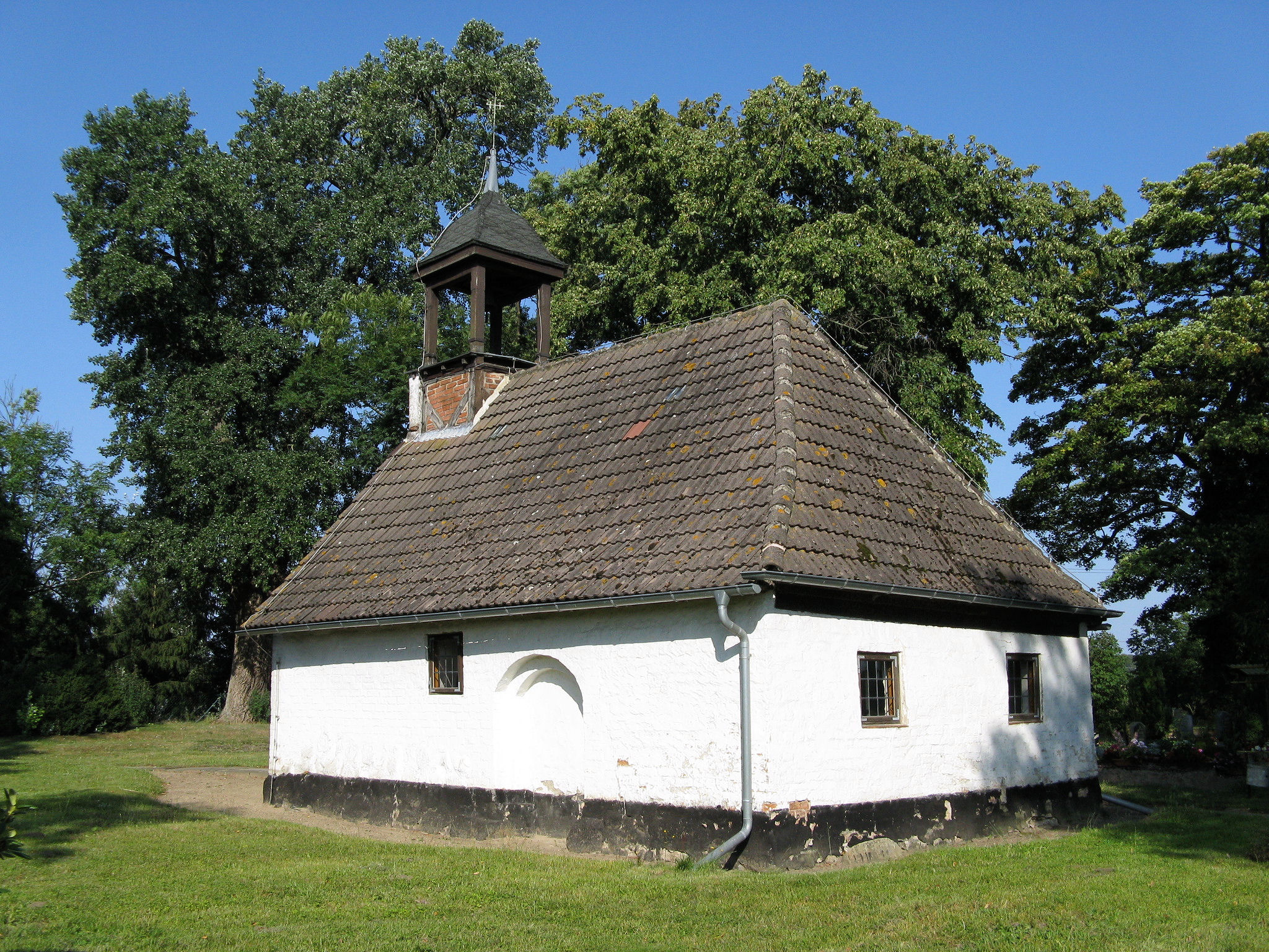 Chapel in Göldenitz, disctrict Bad Doberan, Mecklenburg-Vorpommern, Germany